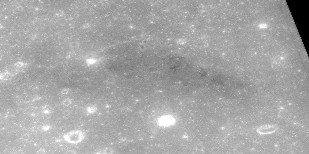 Oblique view facing north of Mons Esam, Mare Tranquillitatis, on the moon. Brighness and contrast adjusted from original. Taken by Apollo 15 panoramic camera.